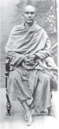 Swami Turiyananda, a direct monastic disciple of Sri Ramakrishna